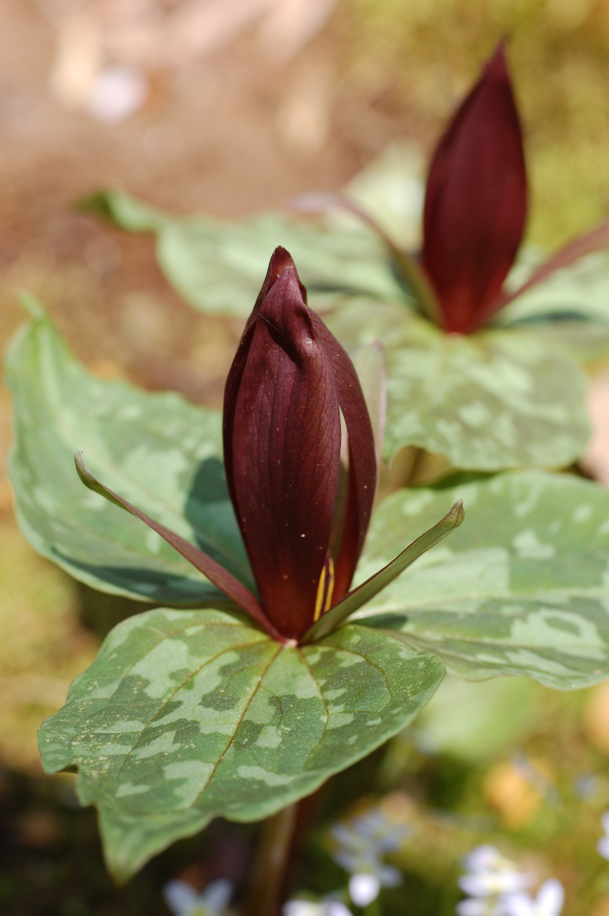 Photograph of the Large Toadshadeen (Trillium cuneatum en ). Photo taken at the Mt. Cuba Center where it was identified.